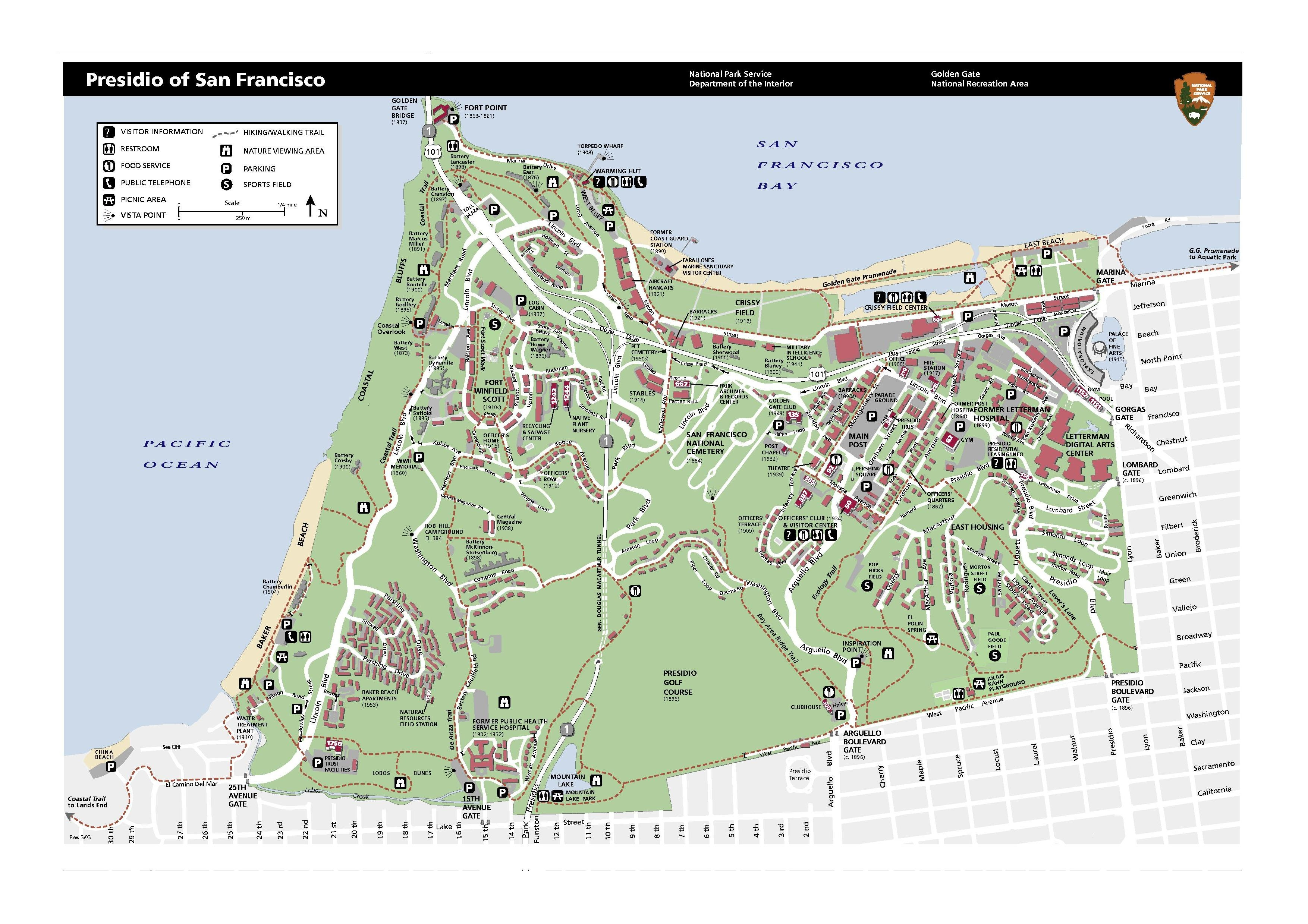 Official map of the Presidio of San Francisco. Operated by the National Park Service.